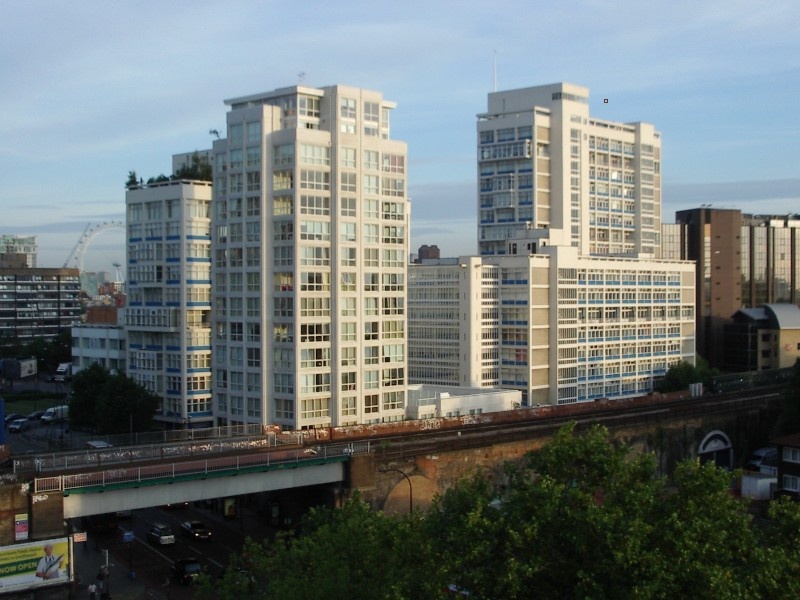 Metro Central Heights and Vantage